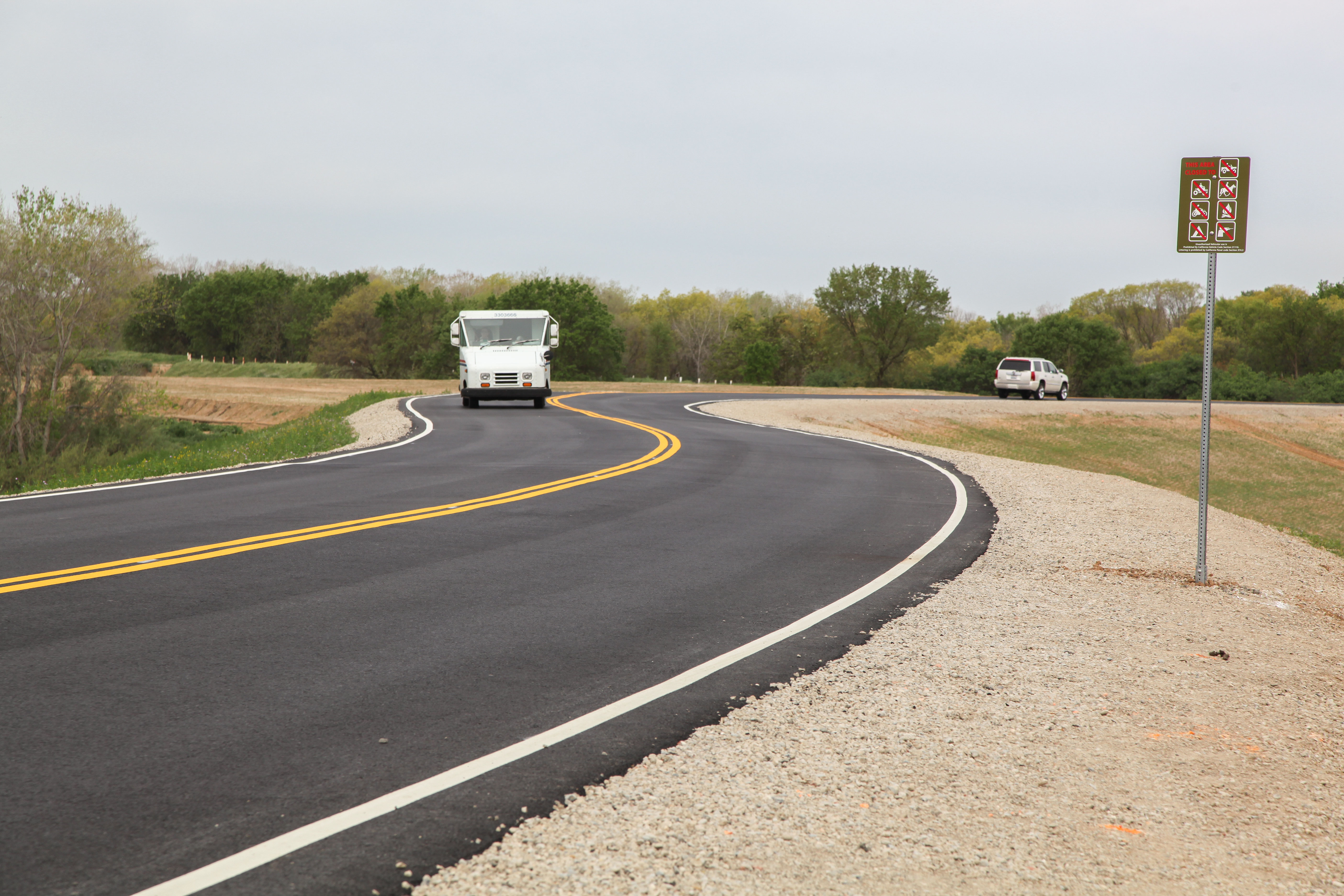 A northern view March 20, 2015, of the U.S. Army Corps of Engineers Sacramento District’s completed setback levee, now functioning as South River Road in West Sacramento California. The work is part of the Sacramento River Bank Protection Project, a joint effort between the Corps and the California Central Valley Flood Protection Board to repair riverbank erosion along the Sacramento River and its tributaries. (U.S. Army photo by Todd Plain/Released)